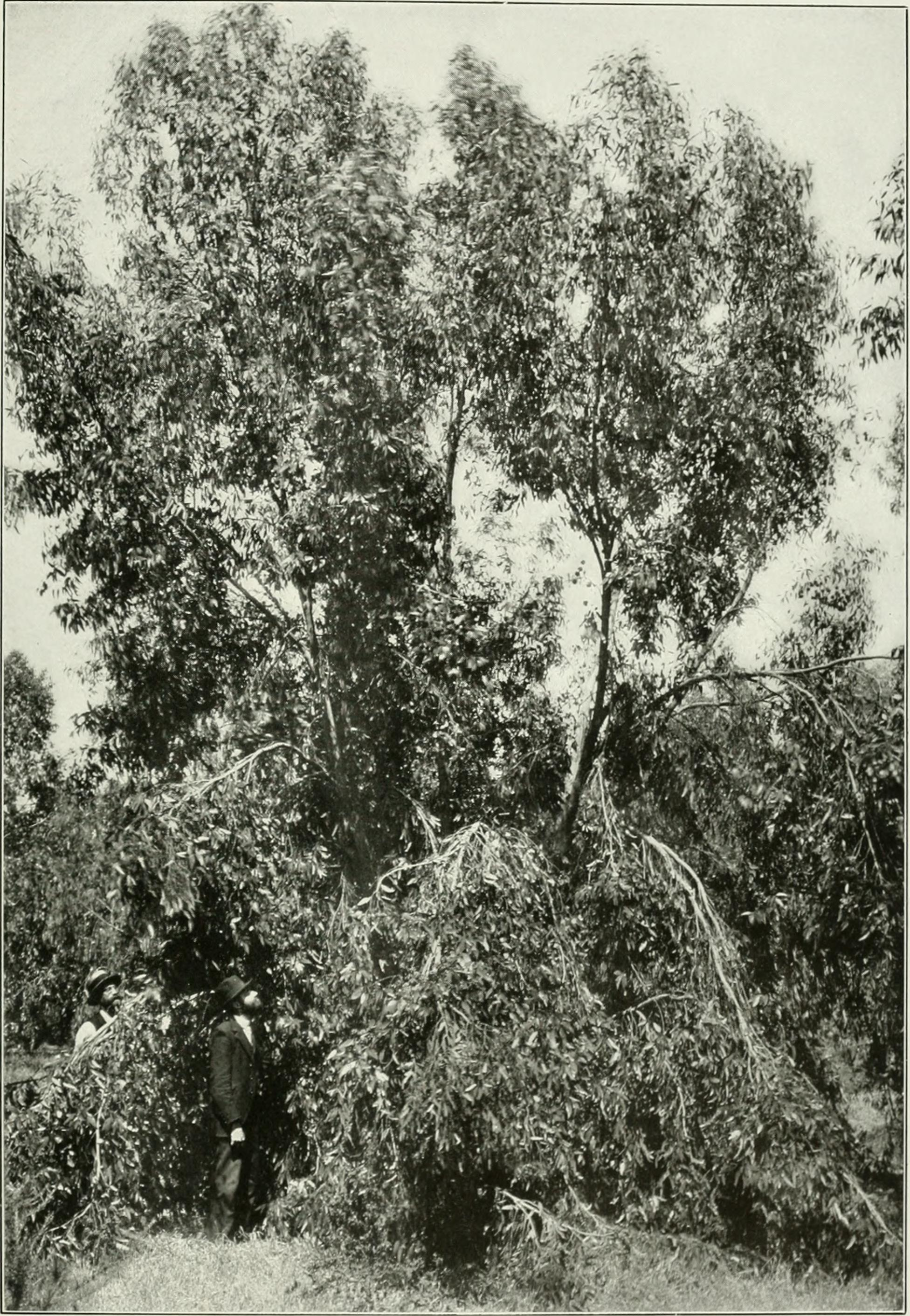 Title: Eucalypts cultivated in the United States Year: 1902 (1900s) Authors: McClatchie, Alfred James Subjects: Eucalyptus Forests and forestry -- United States Publisher: Washington : G.P.O. Text Appearing Before Image: Eucalyptus occidentalis near Santa monica Cal. 35, Bureau of Forestry. U S Dppt nf Agricuitur. Plate XXXIII, Text Appearing After Image: Eucalyptus ---.^_-\ i--^ic;, nlak bAM ■■ M-•,--■■-. C- 3ul. 35, Bureau of Forestry U S. Dept. of Agriculture. Plate XXXIV.